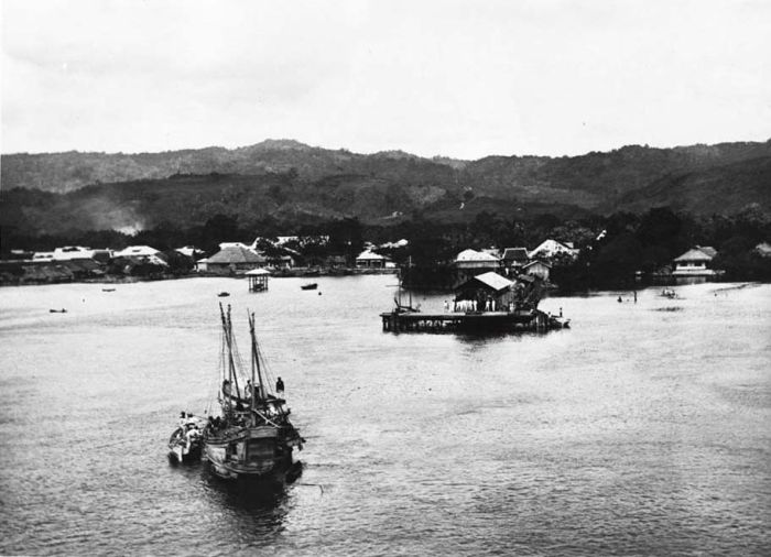 A proa near a pier at Amboina